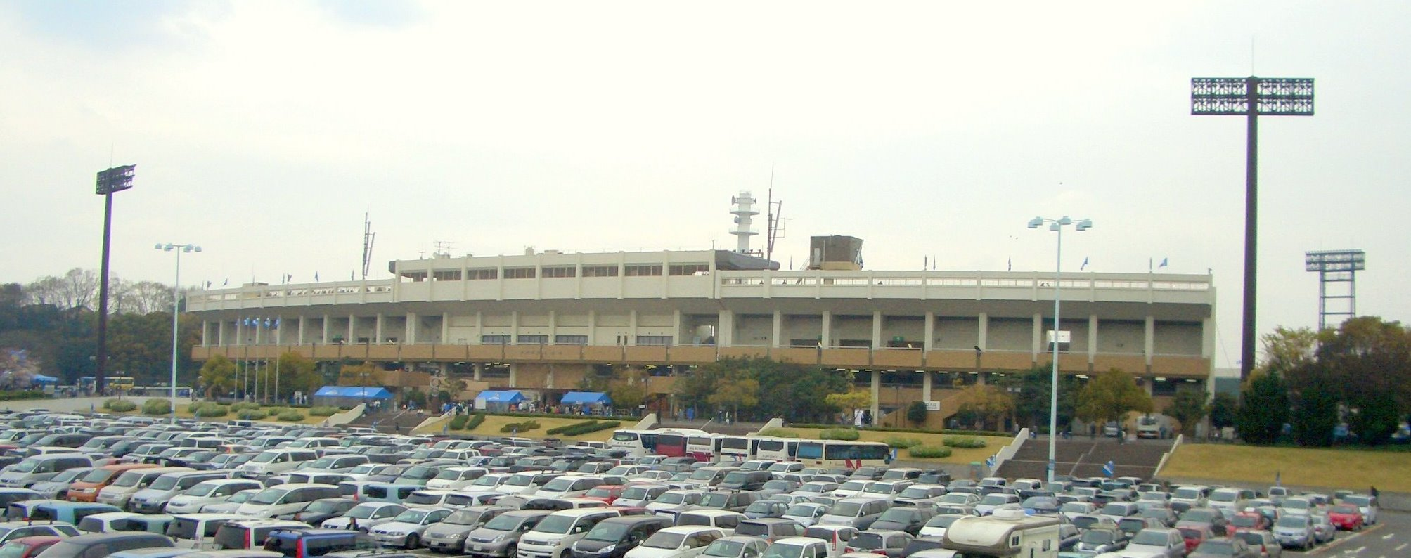 external appearance of Expo '70 Stadium